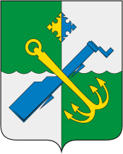 Podporozhsky rayon (Leningrad oblast), coat of arms